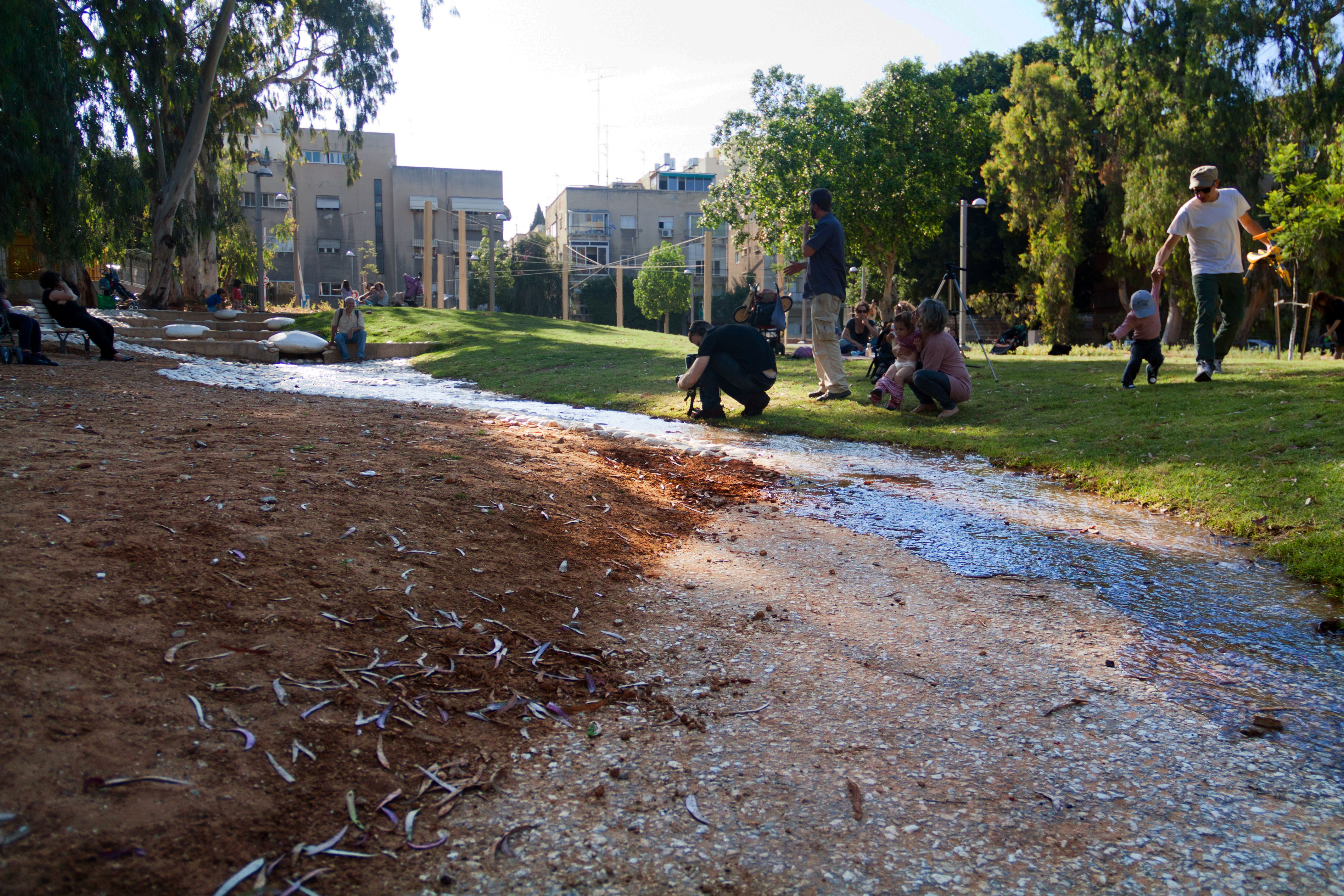 Kiryat Seffer Garden